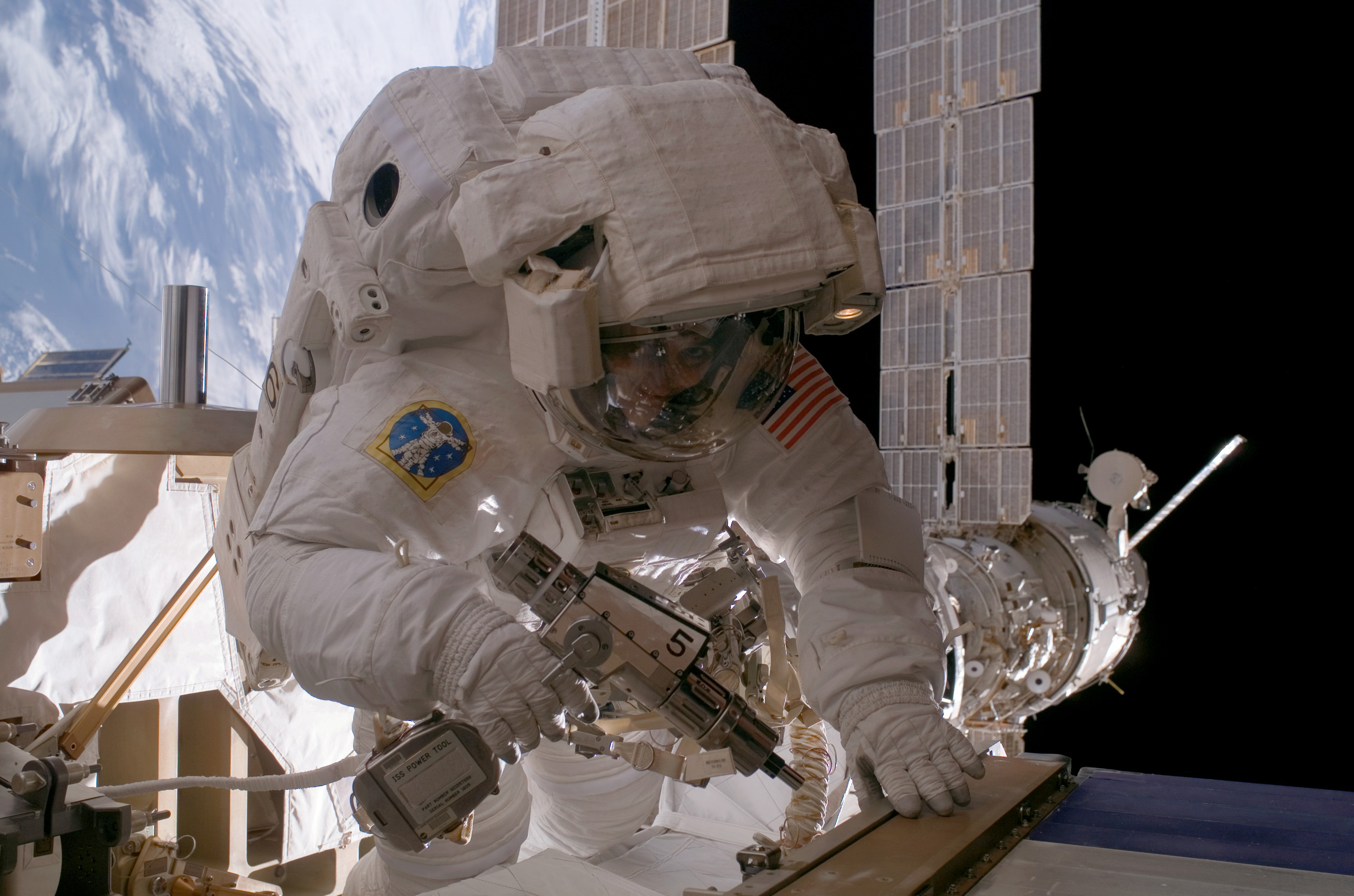 Goddard's Ritsko Wins 2011 SAVE Award The winner of the 2011 SAVE Award is Matthew Ritsko, a Goddard financial manager. His tool lending library would track and enable sharing of expensive space-flight tools and hardware after projects no longer need them. This set of images represents the types of tools used at NASA. To read more go to: Astronaut Sunita L. Williams, Expedition 14 flight engineer, used a pistol grip tool as she worked on the International Space Station in the first of three spacewalks slated to occur over a nine-day period. During the 7-hour 55-minute spacewalk that took place on Jan. 31, 2007, Williams and station commander Michael E. Lopez-Alegria (out of frame) reconfigured one of two cooling loops for the Destiny laboratory module, rearranged electrical connections and secured the starboard radiator of the P6 truss after retraction. Image credit: NASA